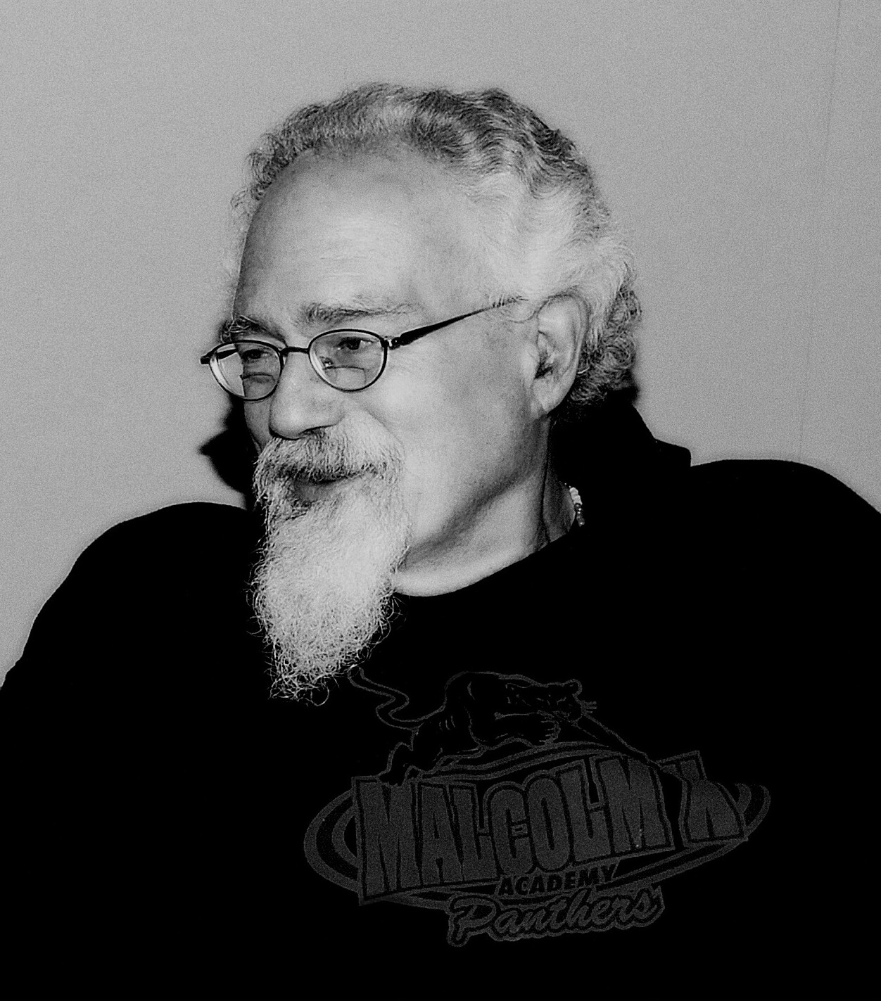 Photograph of John Sinclair (poet)